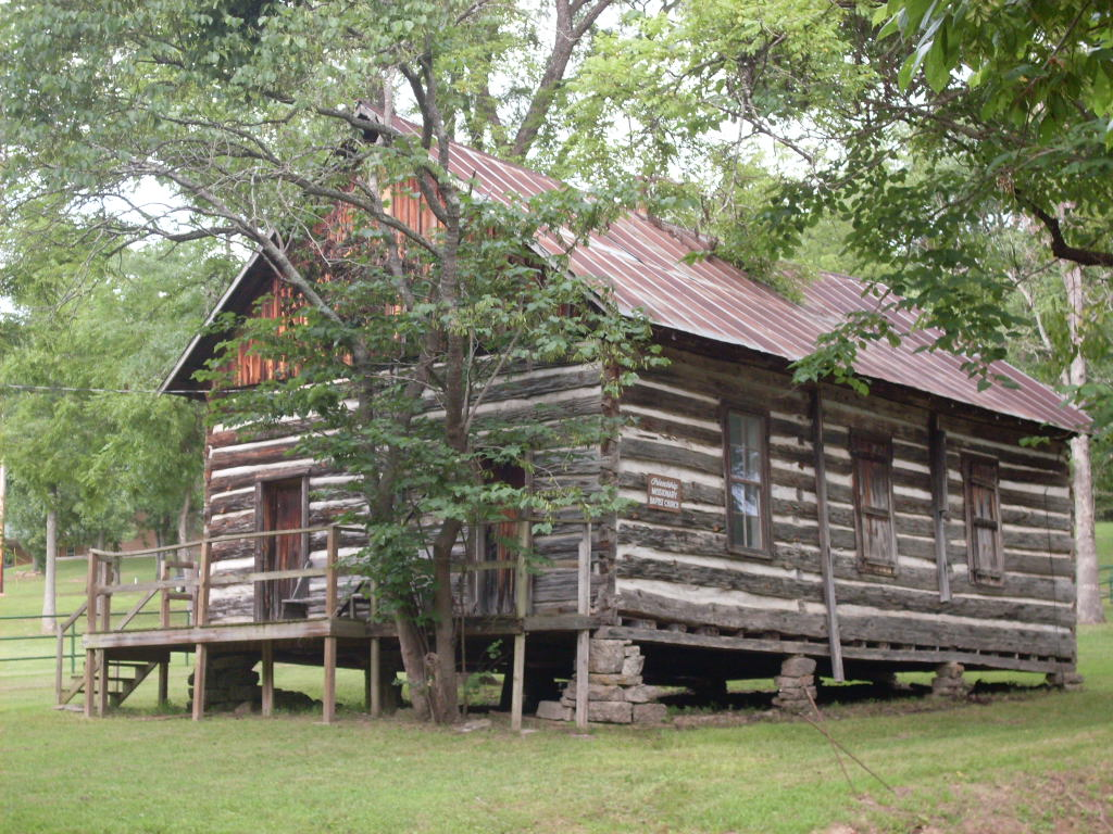 The old log church in Vera Cruz by the cemetary